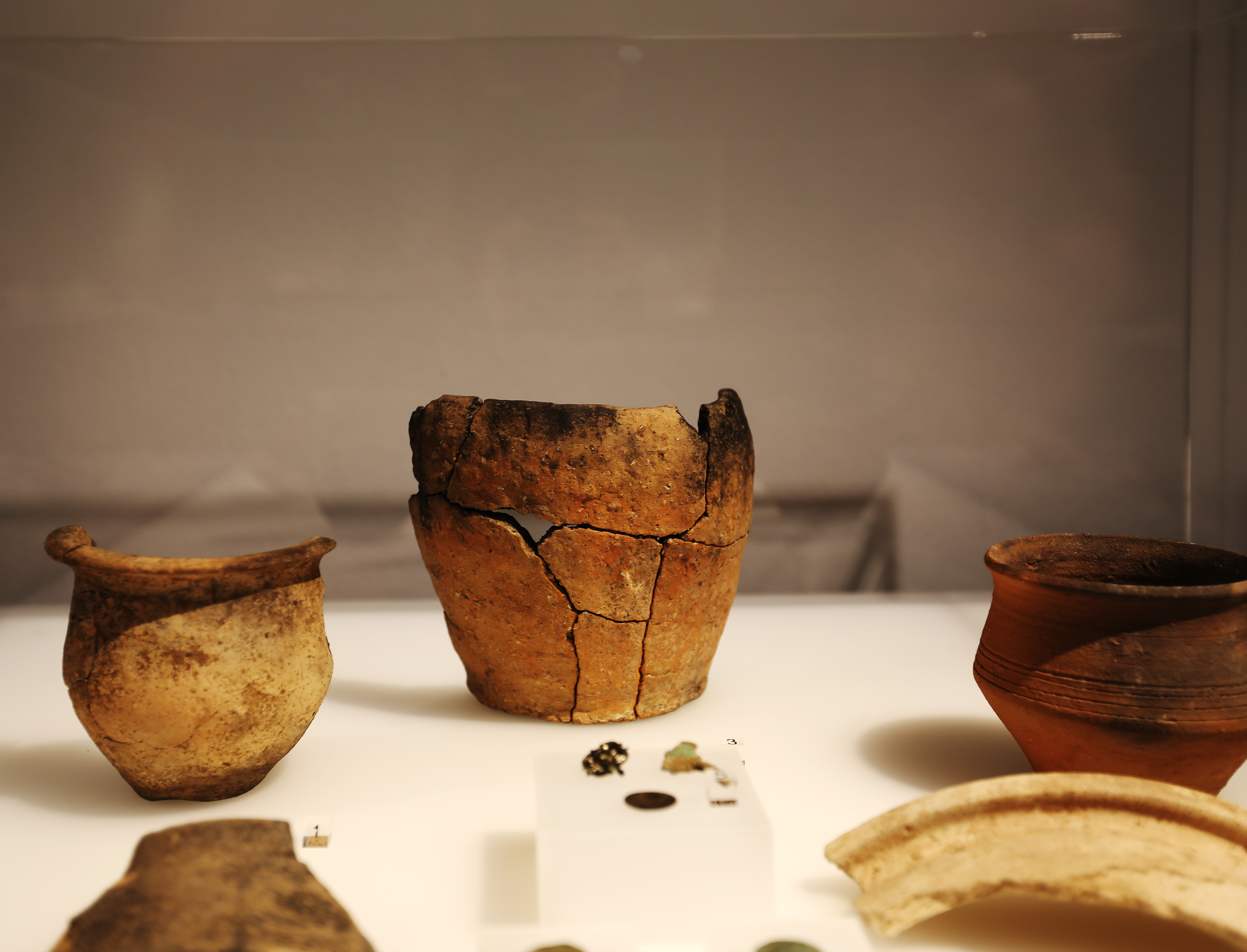 Arschäological funds 6. - 7. century, Pützchen-Bechlinghoven, Germany